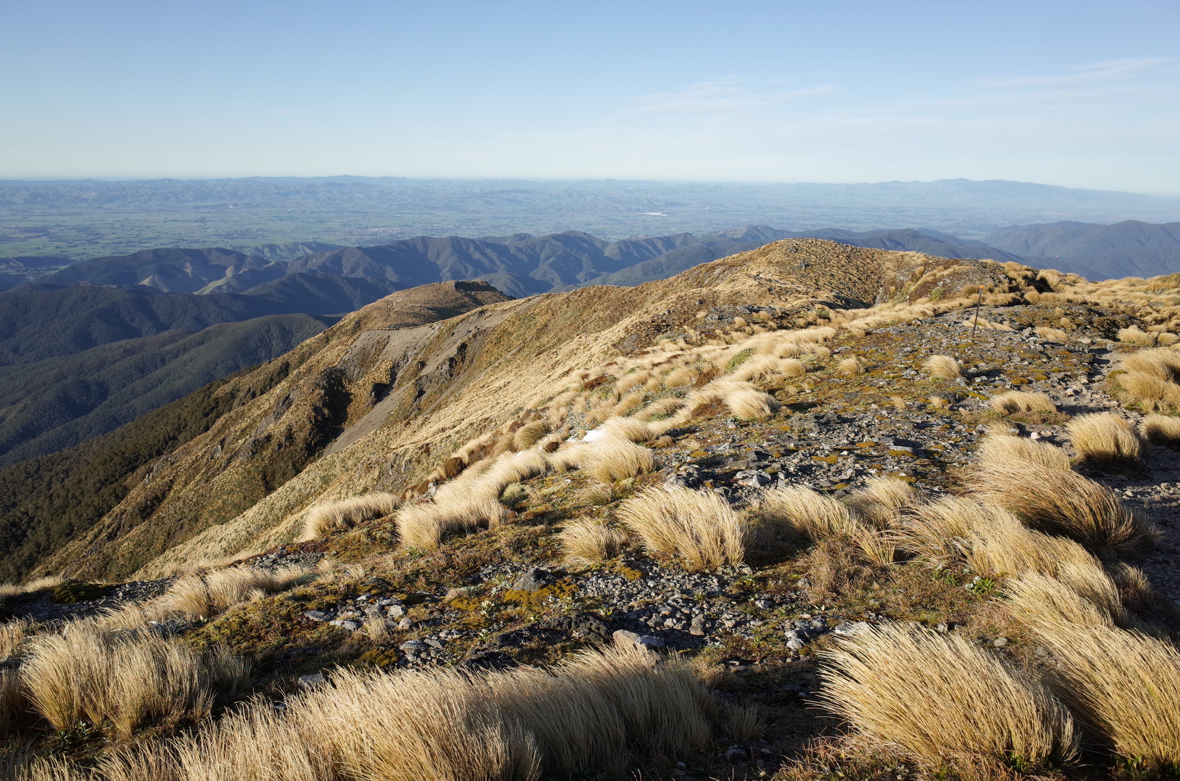 On the way from Mt. Holdsworth from Powell Hut. Tararua Range, New Zealand.